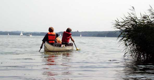 Canoeing at Sejs close to Silkeborg in Jutland Denmark.